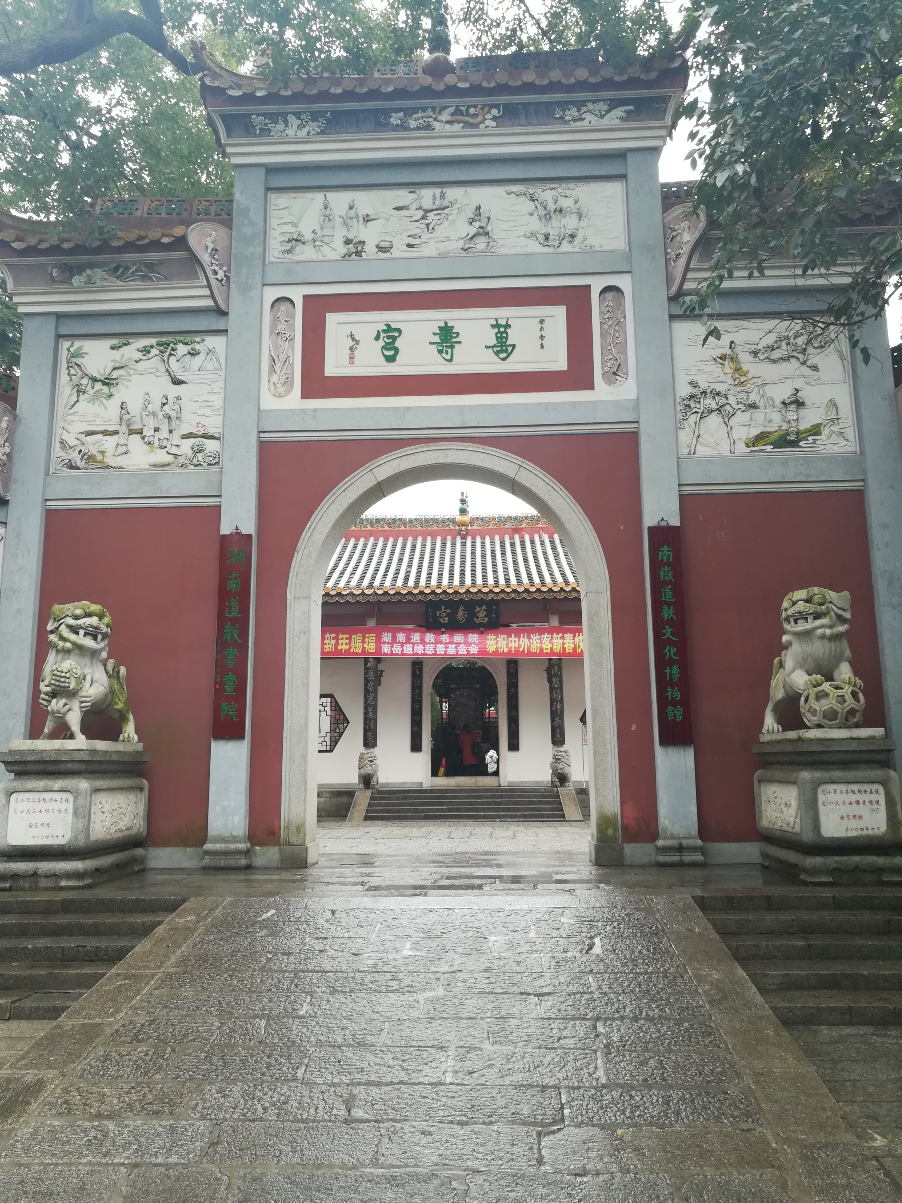 The Gate of Wanshou Palace in the Grand Temple of Mount Heng.